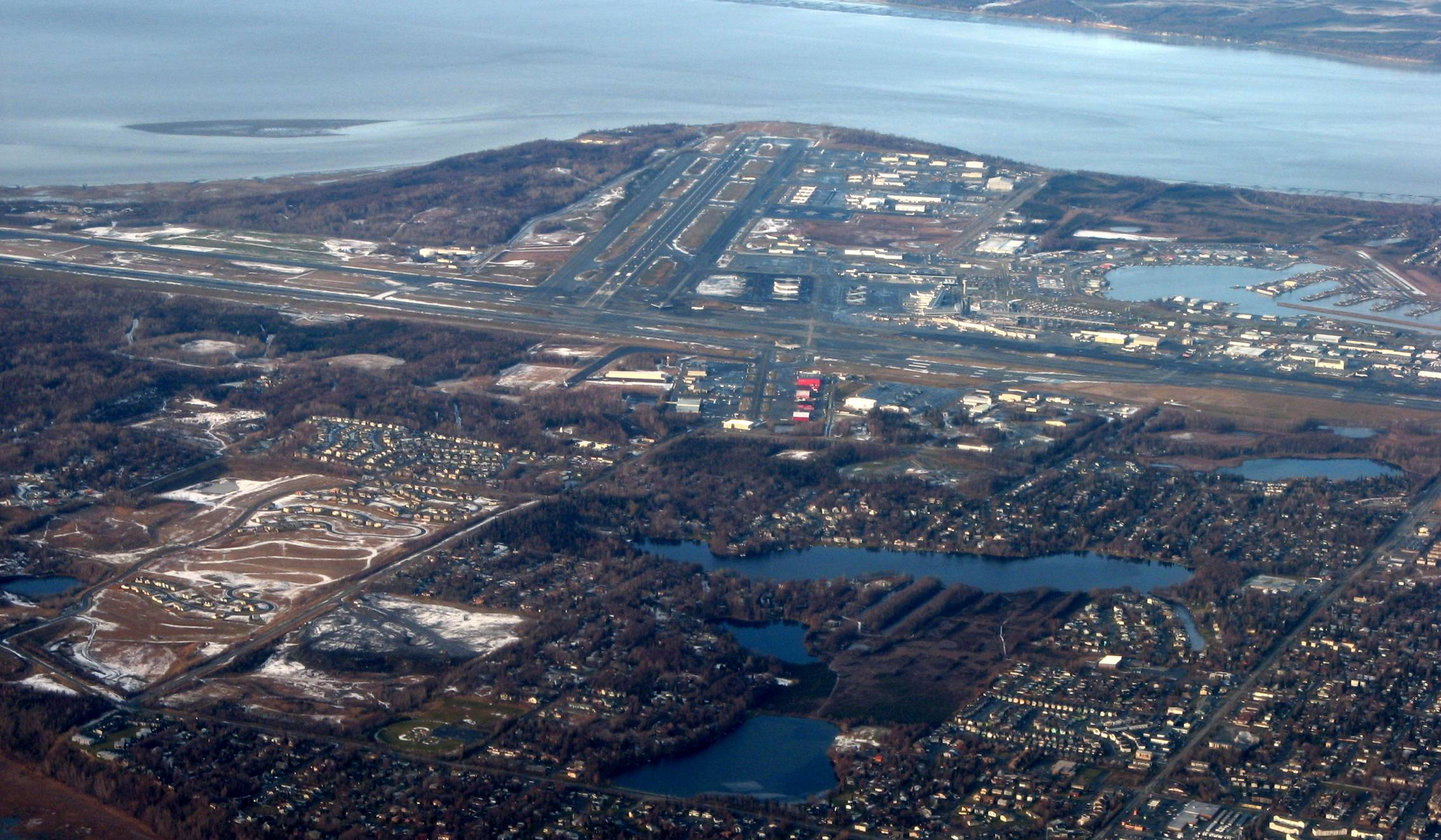 Taken on a flight from Seattle to Anchorage in October 2007.